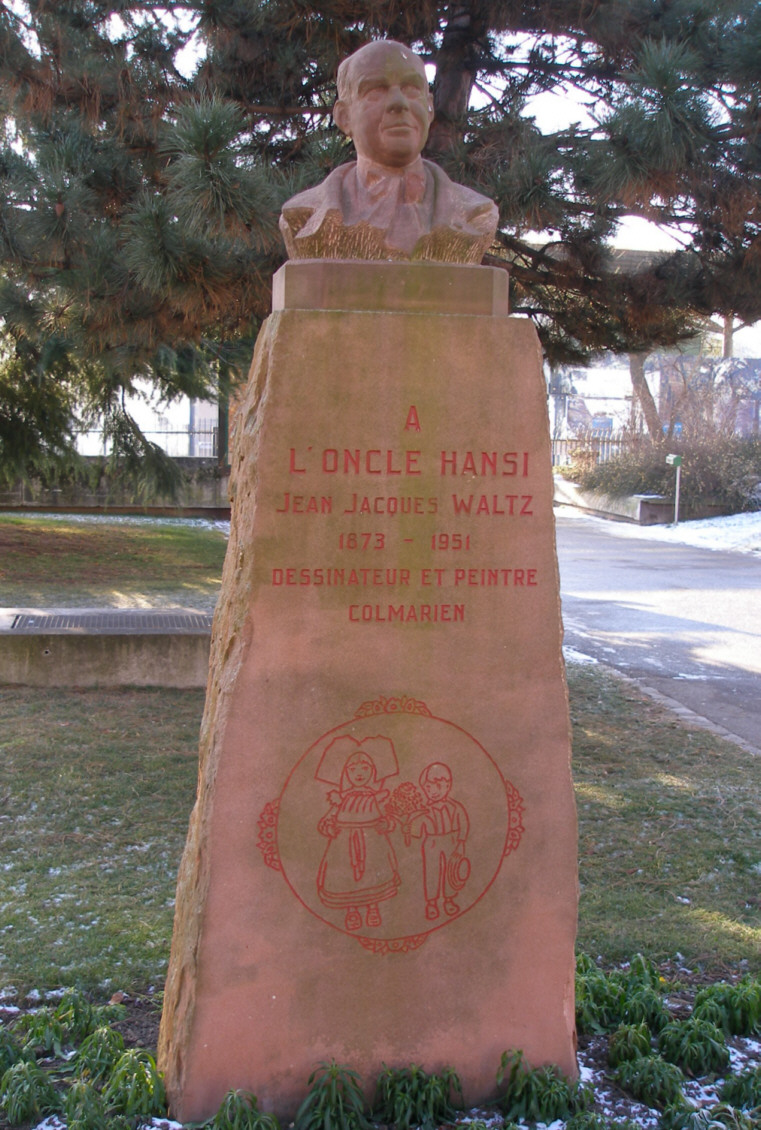 Jean-Jacques Waltz - monument at Colmer (Alsace, France)